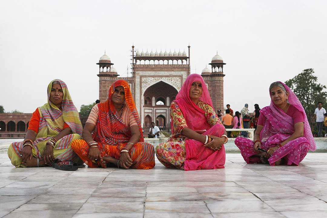 India: Inside the Taj